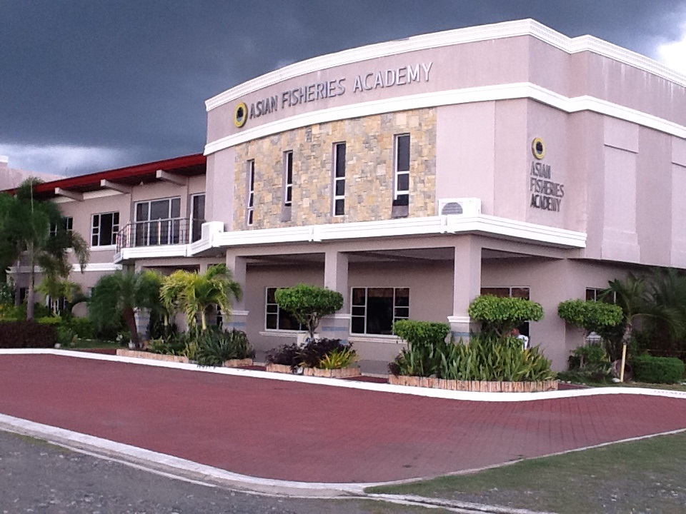 Philippine Bureau of Fisheries Asian Fisheries Academy located at the National Integrated Fisheries Training and Development Center, Bonuan Binloc, Dagupan City